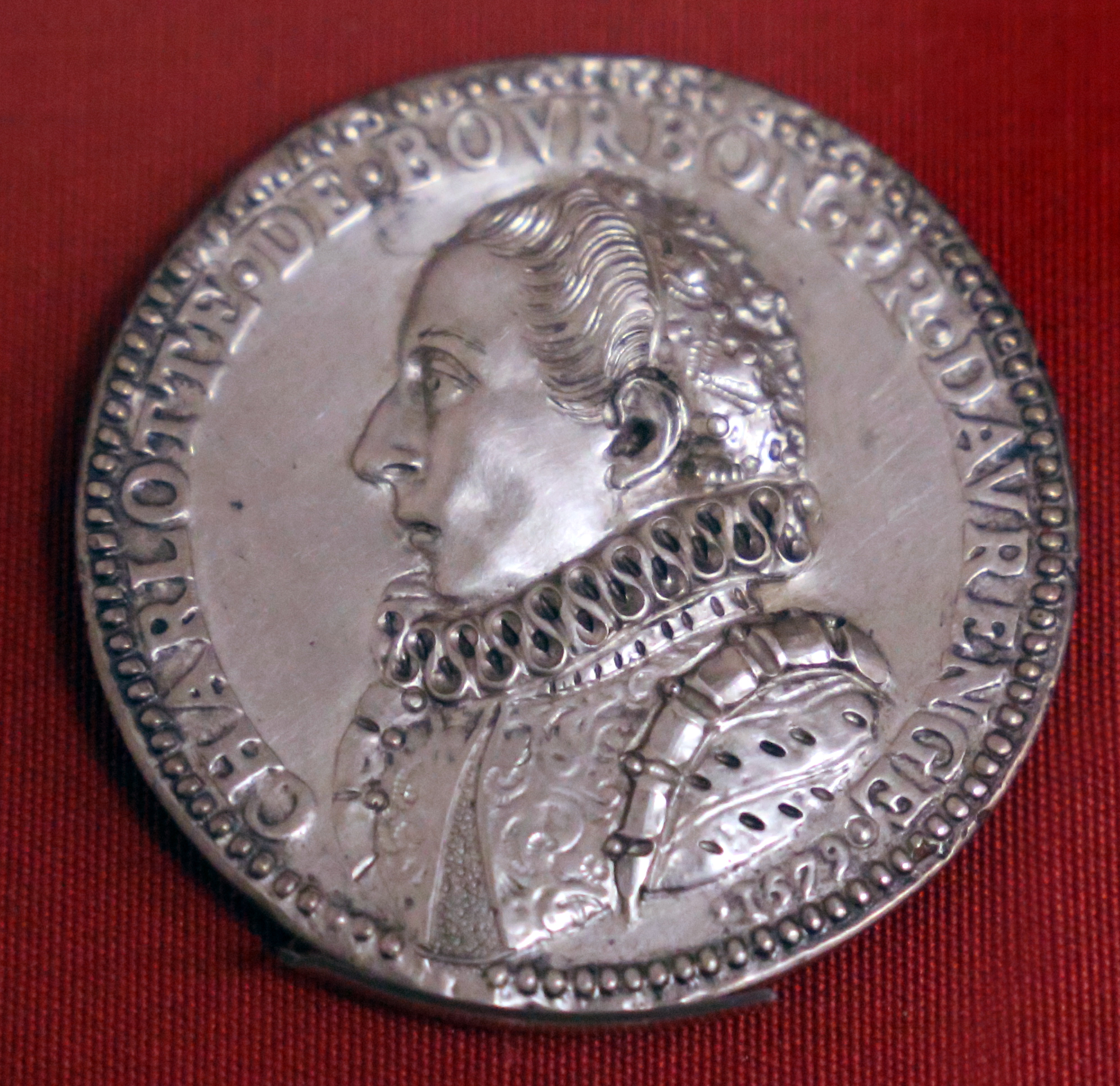 Medals in the Teylers Museum